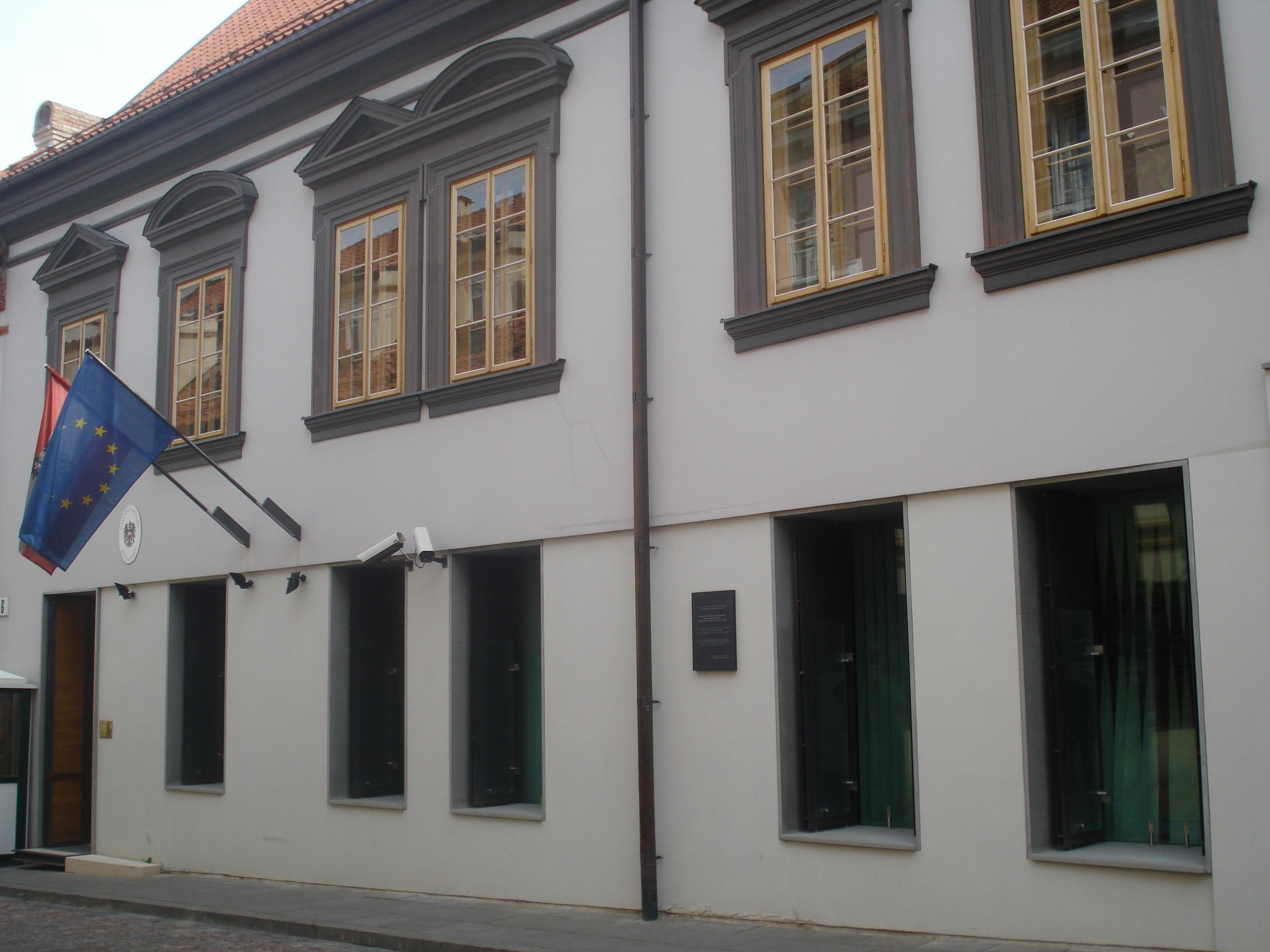 Building constructed in the 16th century, in the 1861-1941 jewish house of prayer, now embassy of Austria in Vilnius (Gaono g.)